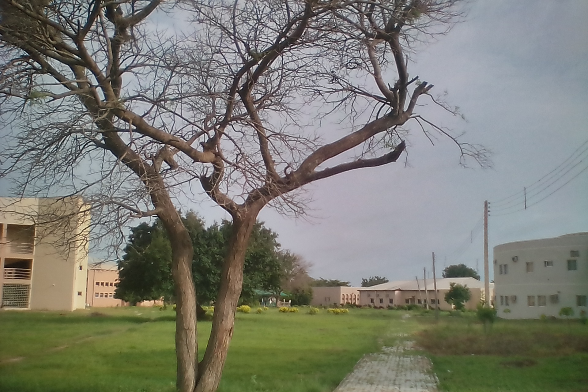 This is the image a tree which in Hausa language is called "Gawo" whose leaves dried up during the raining season and fresh during the dry season. I took the picture at Bayero University Kano behind the Department of Political Science. This is an image of "African people at work" from Nigeria